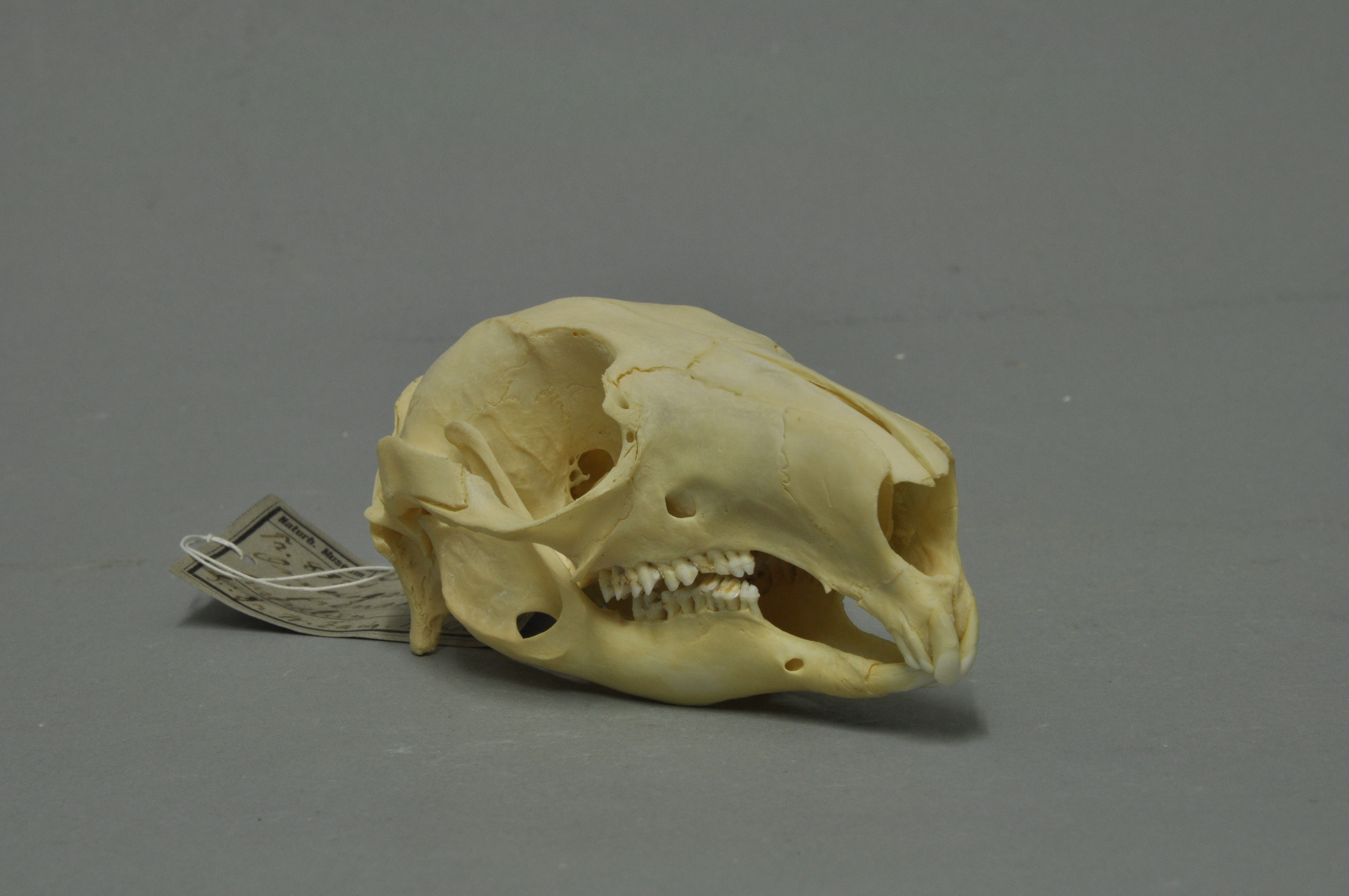 bridled nail-tail wallaby , skull, Coll. Museum Wiesbaden